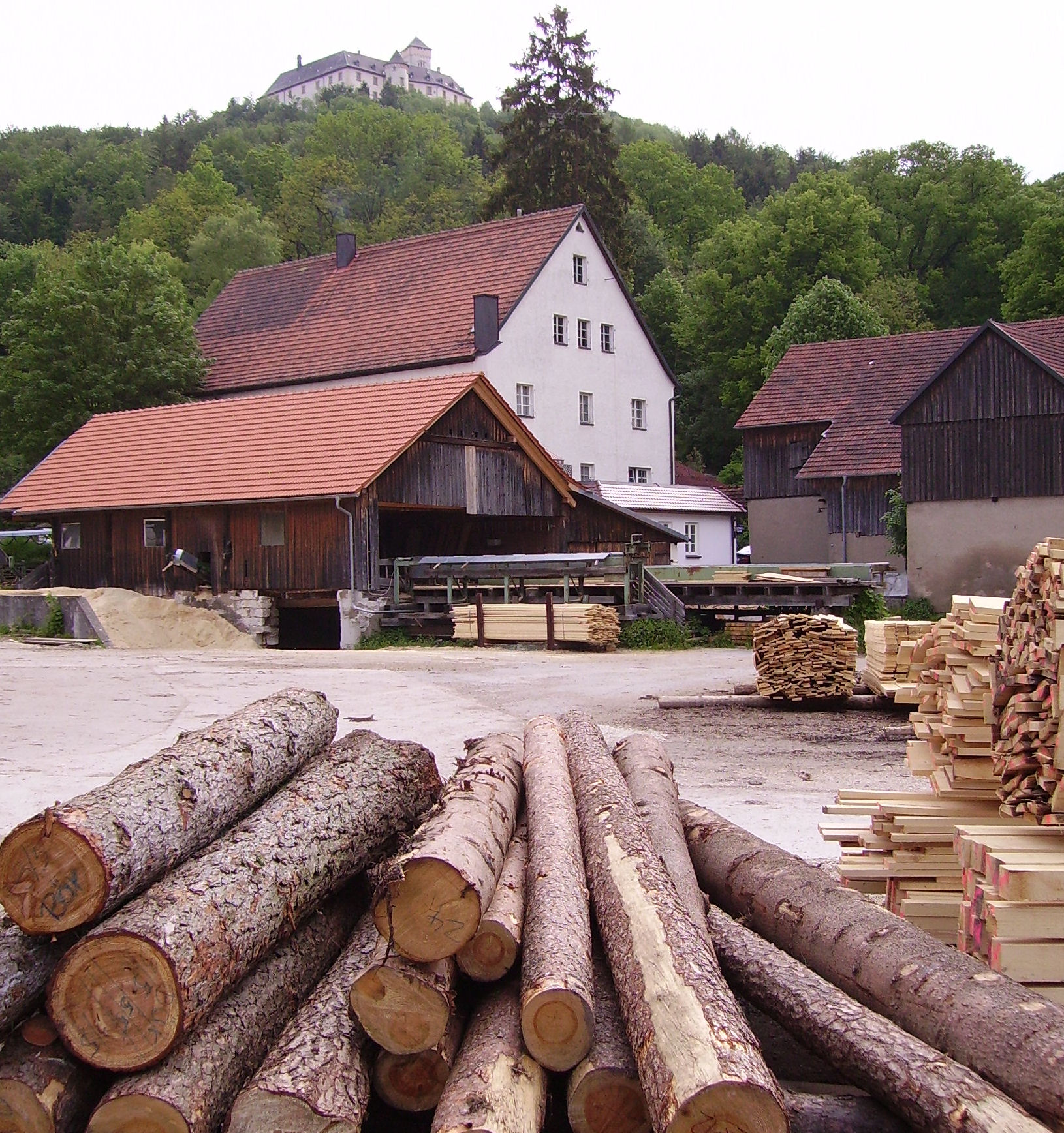 village of Marktgemeinde Heiligenstadt near Bamberg (Upper Franconia) in Germany